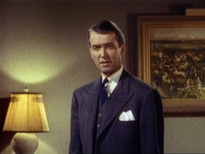 Cropped screenshot of James Stewart from the trailer for the film Rope